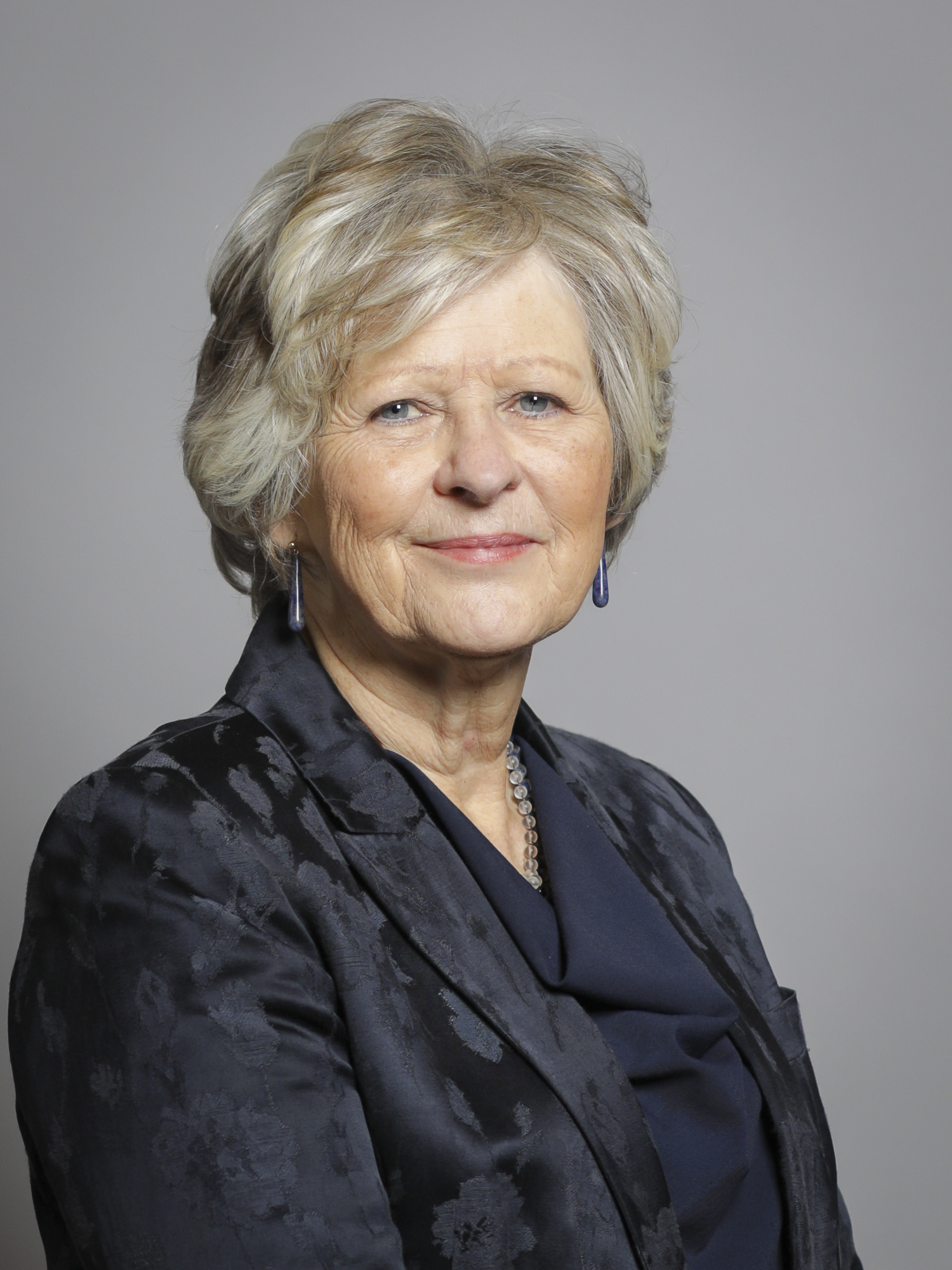 Official portrait of Baroness Hollins 3×4 portrait of Baroness Hollins